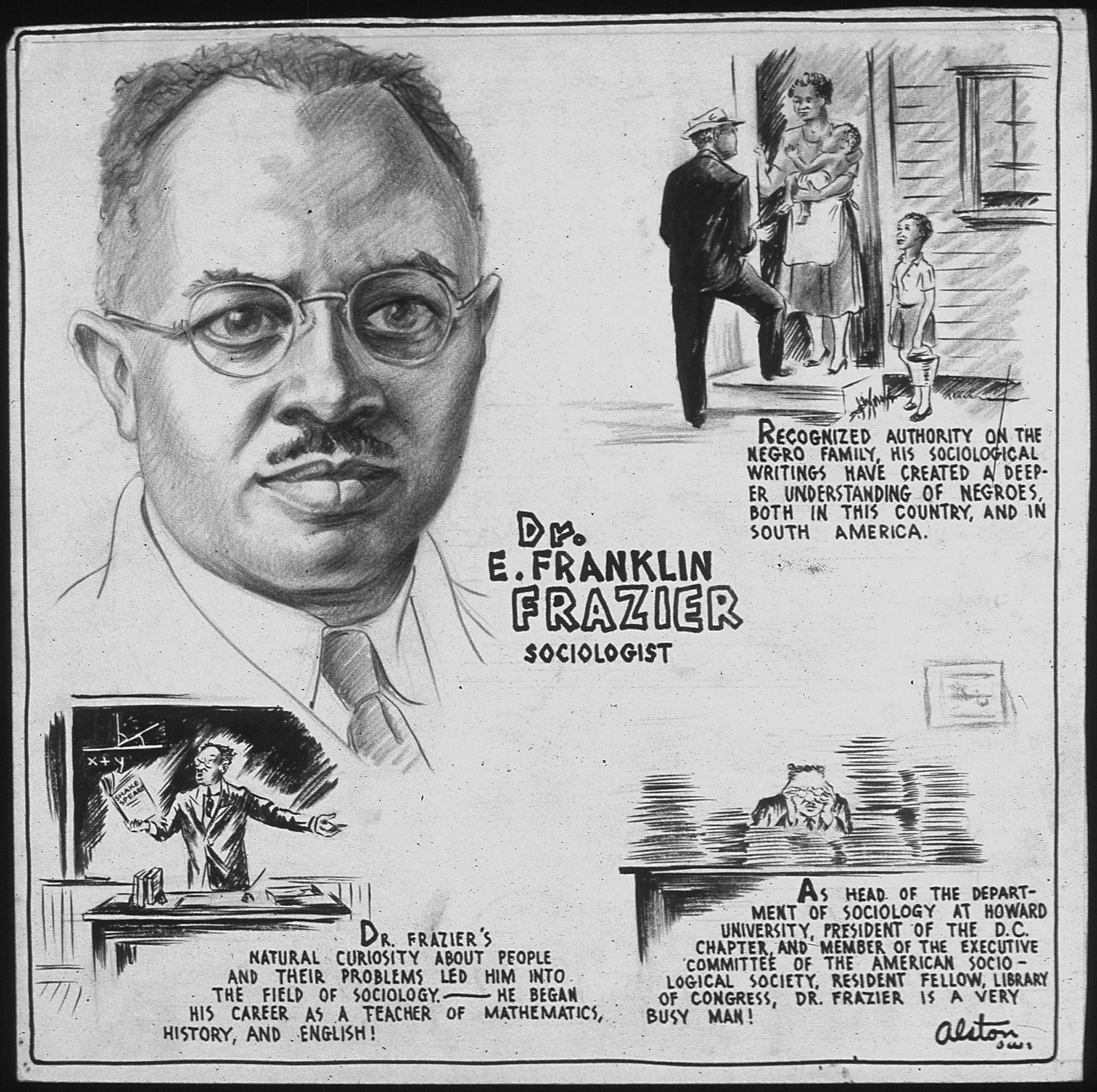 Scope and content: Dr. E. Franklin Frazier - with biographical paragraphs.